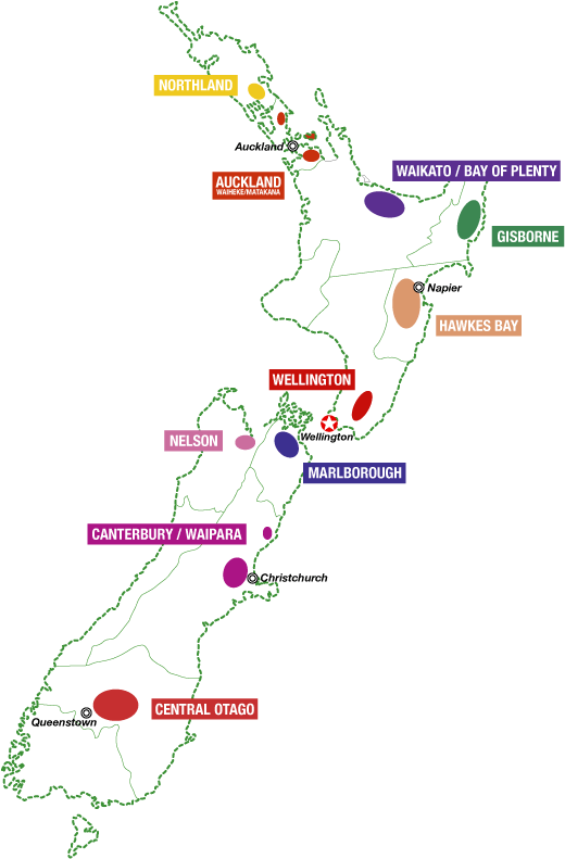 Map of New Zealand wine regions showing major cities and approximate location of the main growing areas